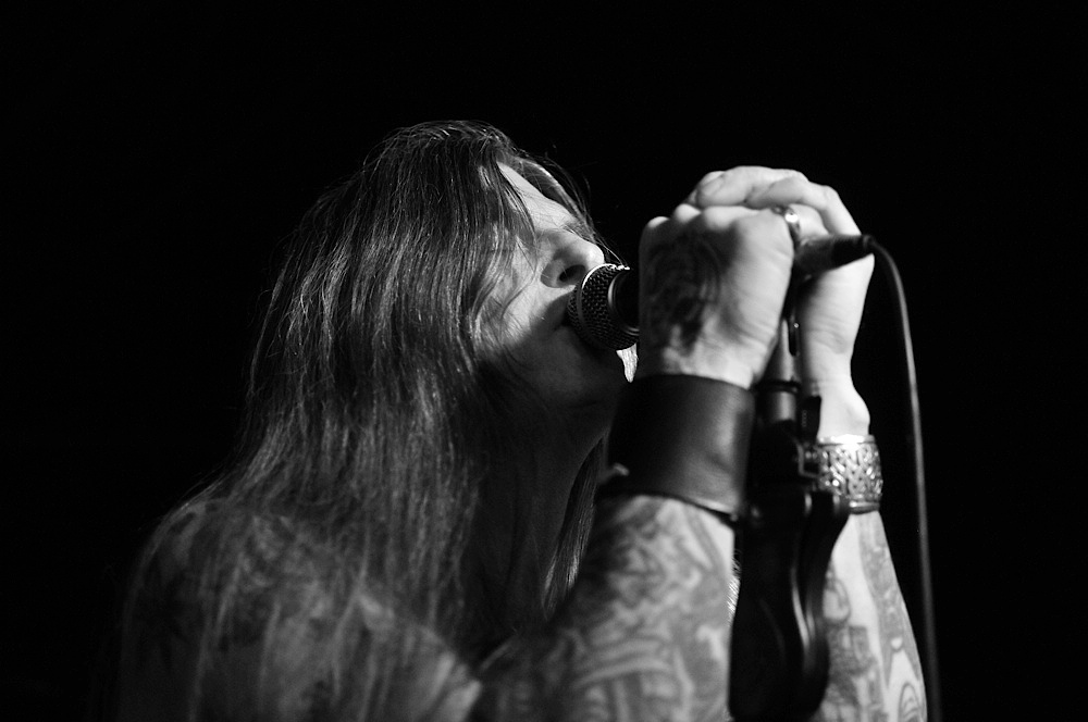 Scott "Wino" Weinrich of Saint Vitus playing live at Kansas, 03/28/11.